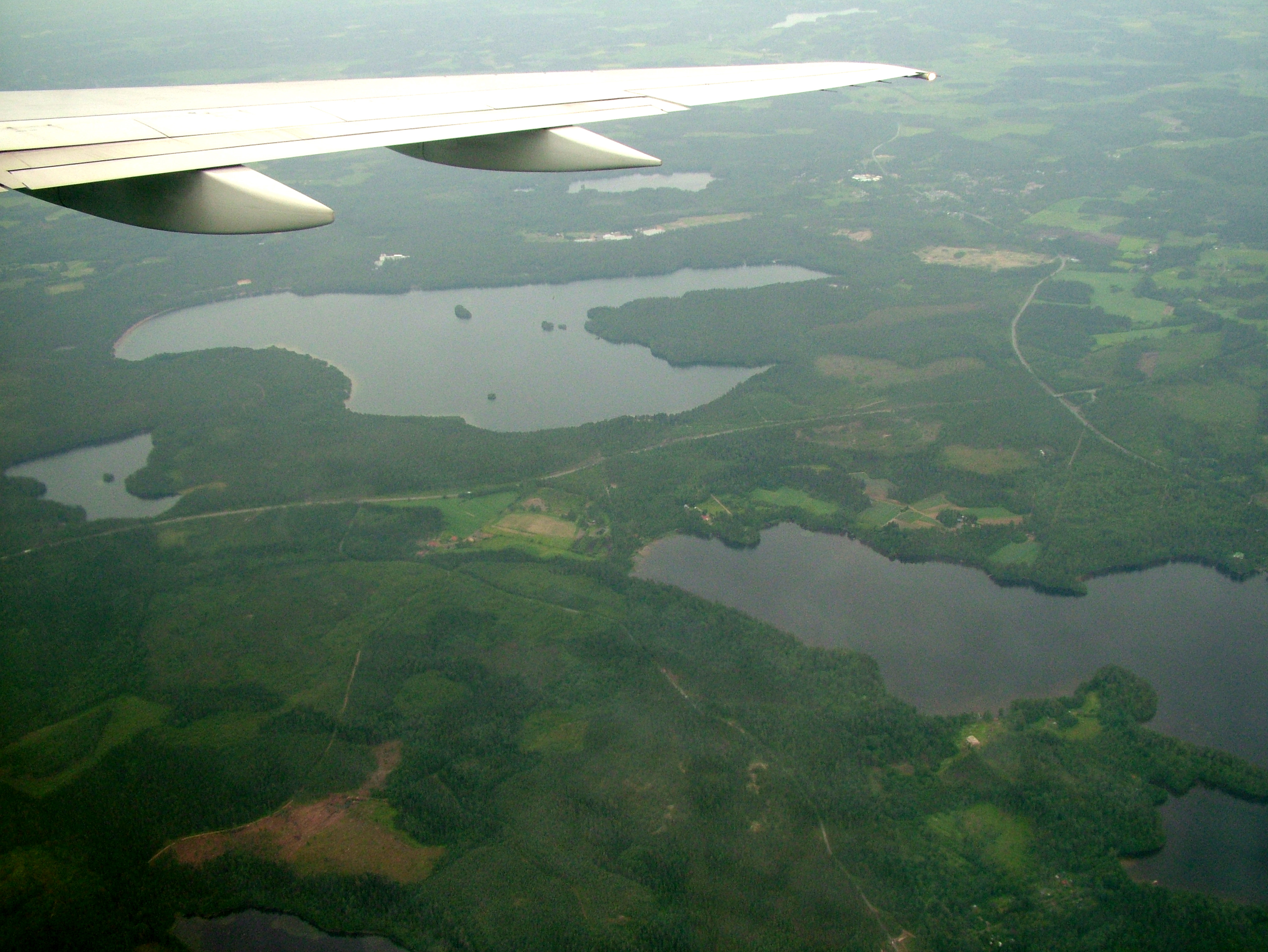 An aerial view of lake Sääksjärvi (below the wing) at Nurmijärvi, Finland. Also visible is route 25 between Sääksjärvi and the eastern end of lake Vihtijärvi. Taken aboard a British Airways Boeing 757 from LHR to HEL.